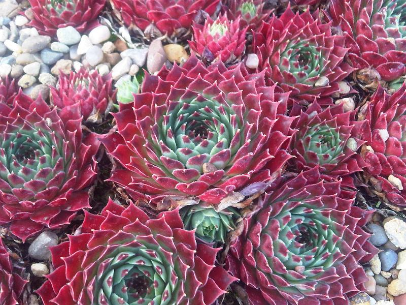 Sempervivum calcareum in Kew Gardens, England.